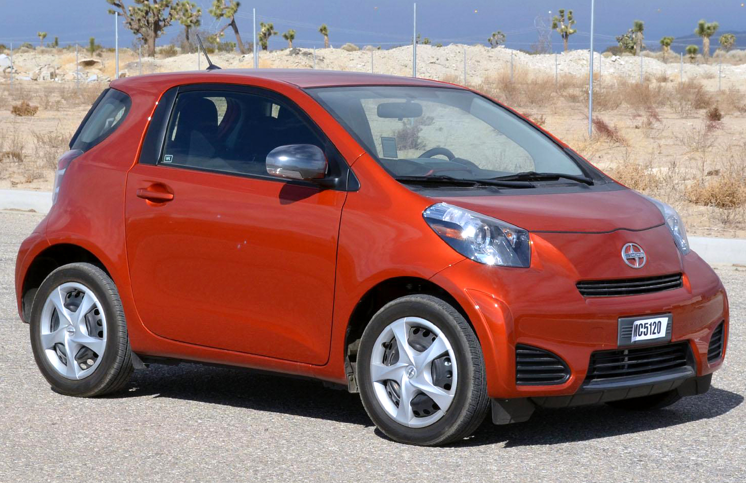 2012 Scion iQ photographed in USA.